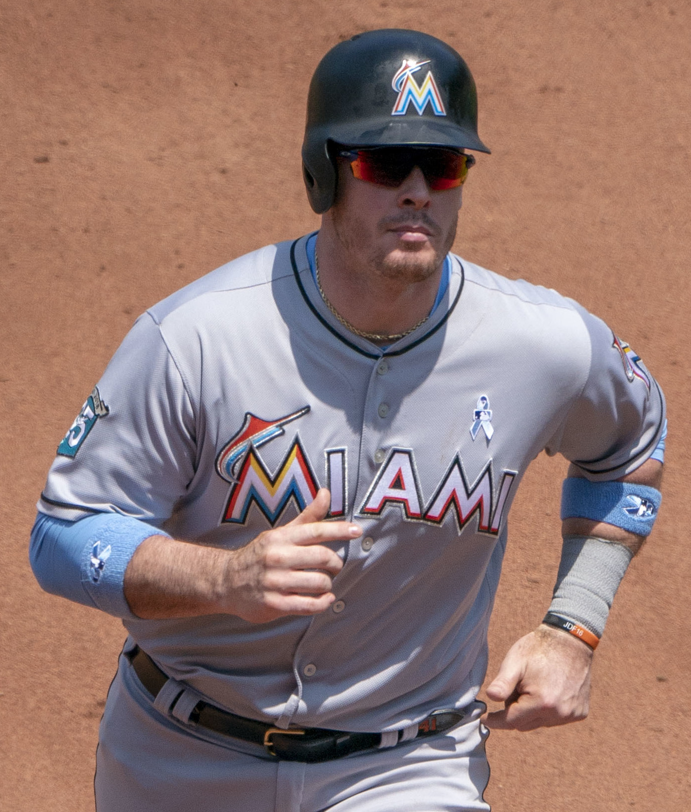 Marlins at Orioles 6/17/18